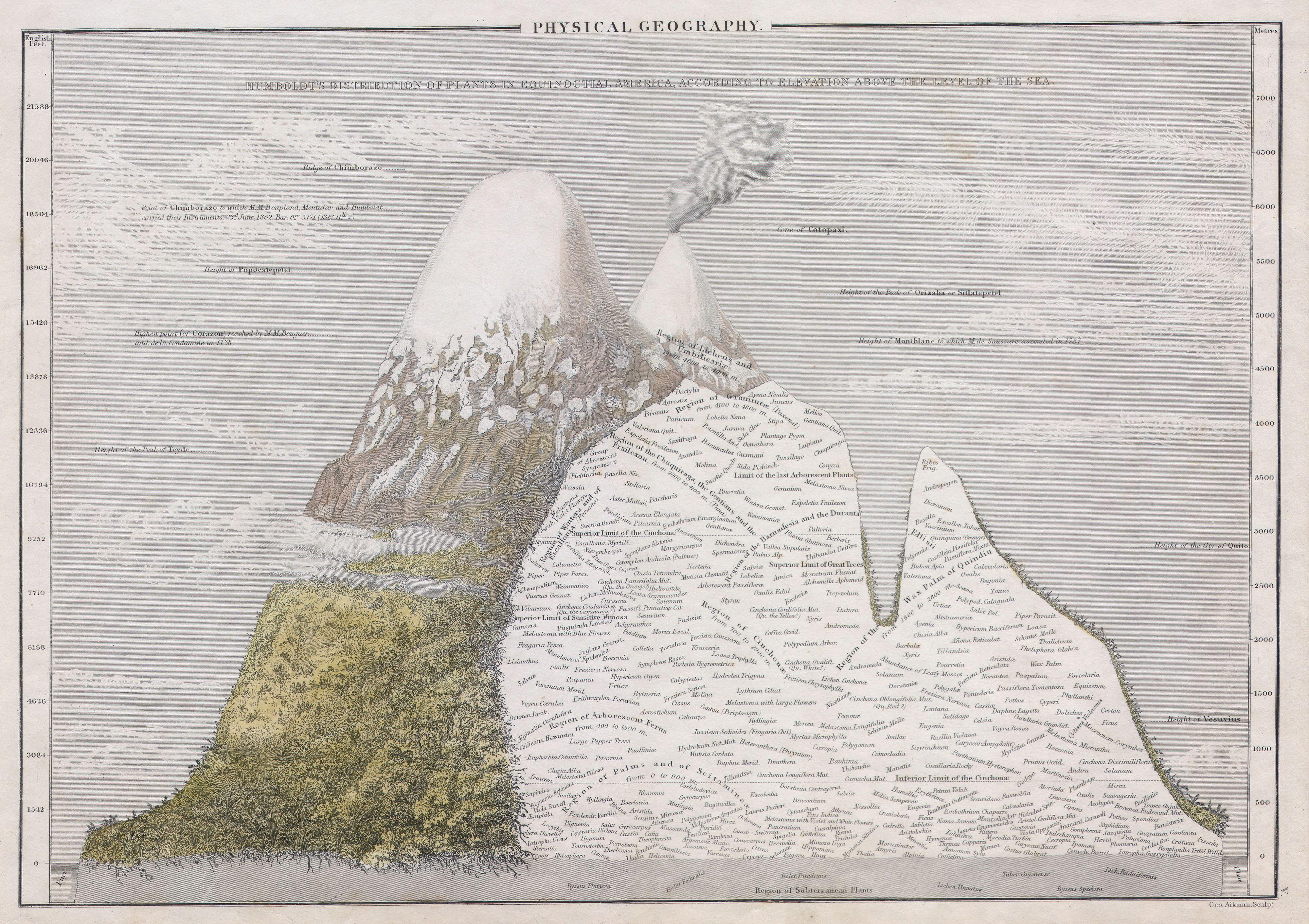 This is a fascinating 1839 map of the distribution of plants according to elevation in the Americas. Includes the heights of various mountains around the world and reference to both terrestrial and subterranean plants. A fascinating and beautiful chart. Drawn and engraved by George Aikman.